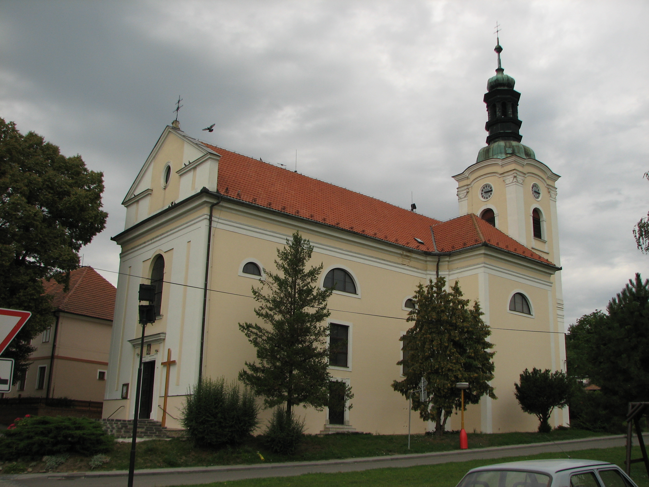 Ždánice - Assumption of the Virgin Mary church